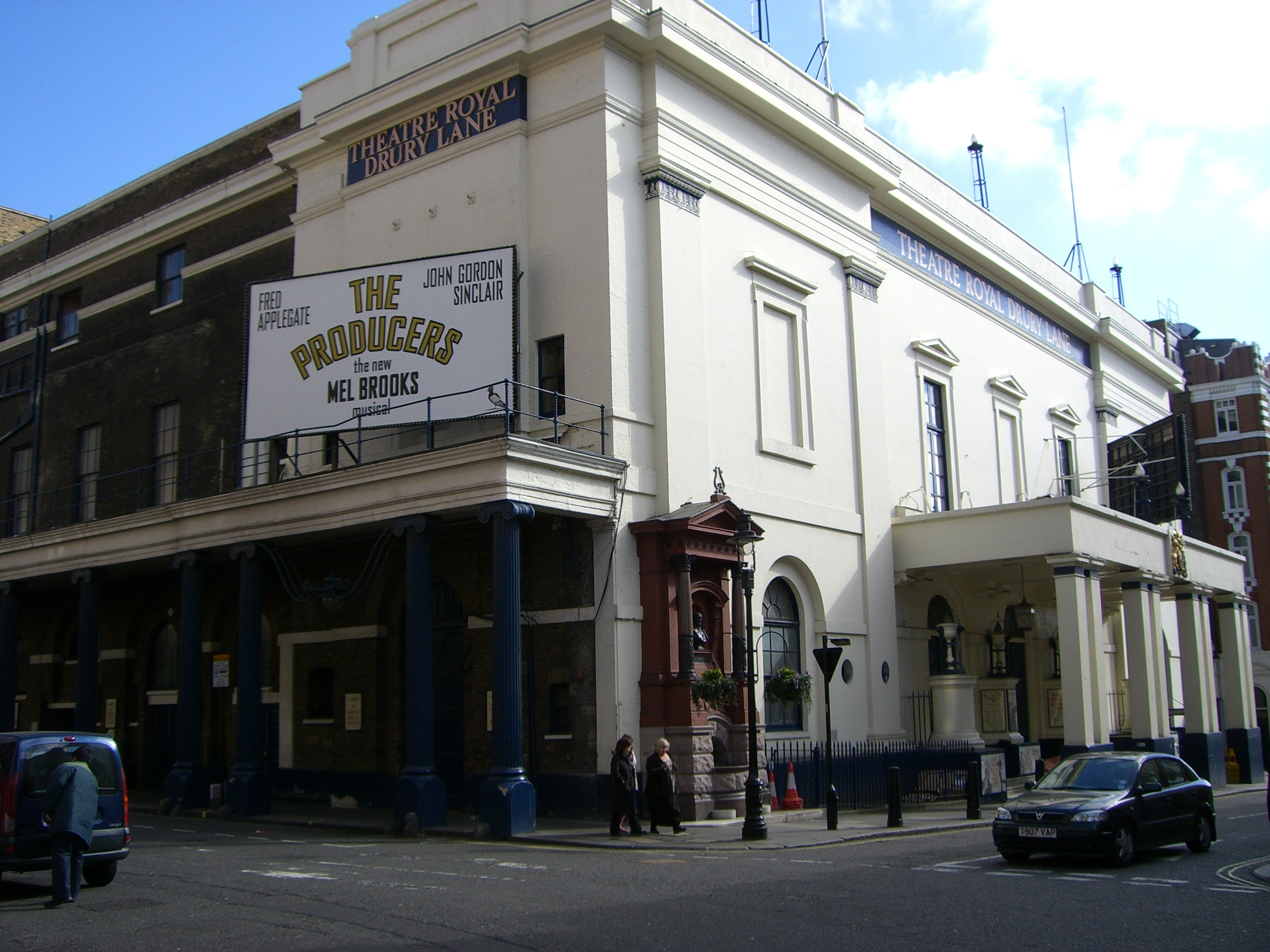 Theatre Royal, Drury Lane, Catherine Street, London WC2B 5JF Photo taken by User:Edward on 19 March 2006 with a Casio EX-S600.